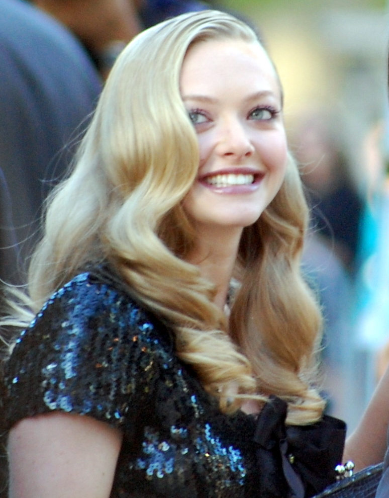 Amanda Seyfried at the 2009 Toronto International Film Festival. Chloe premiere - Roy Thompson Hall